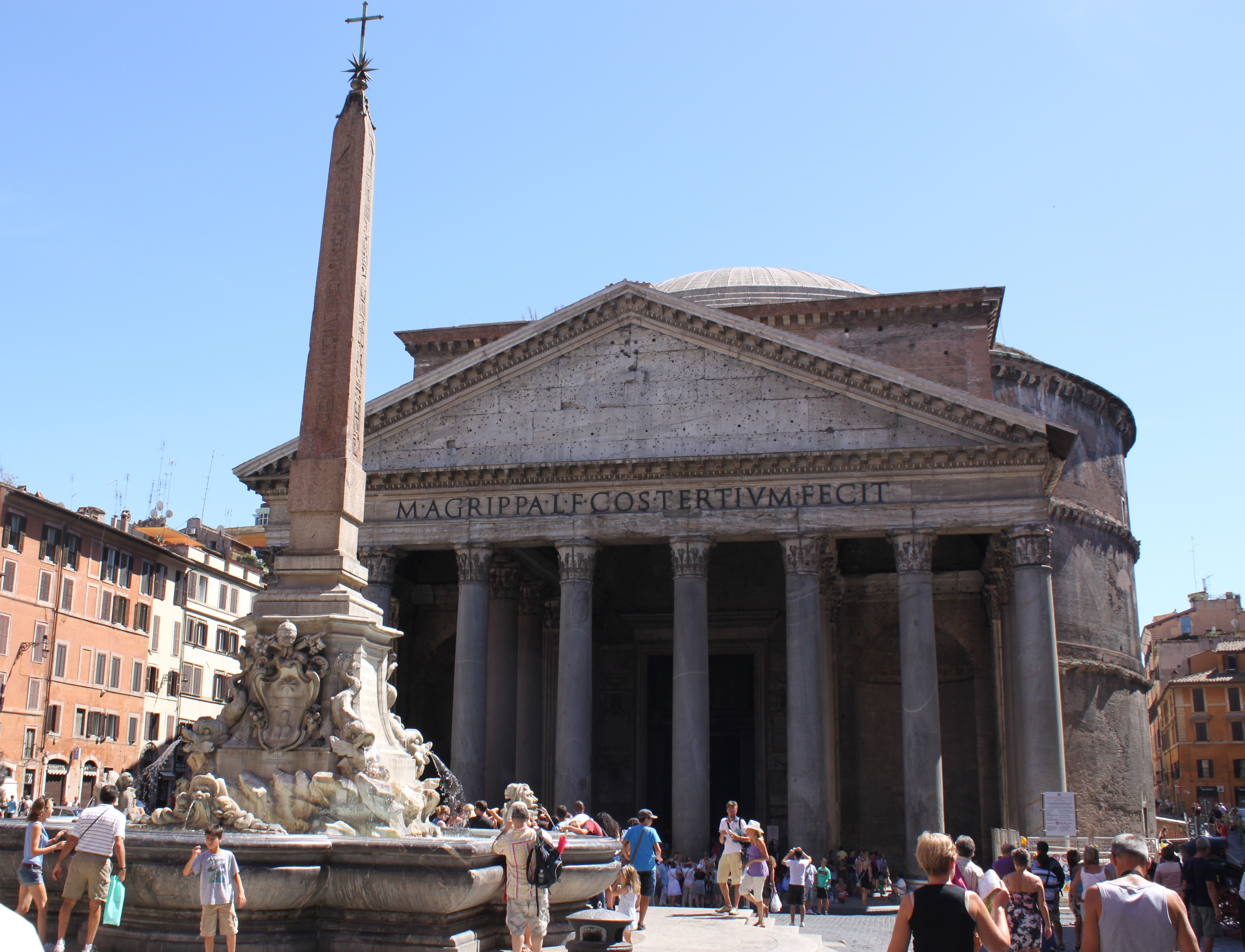 A View of the Pantheon (Temple of all Gods) and Fountana Del Pantheon, Rome. Photo taken in Aug'2011